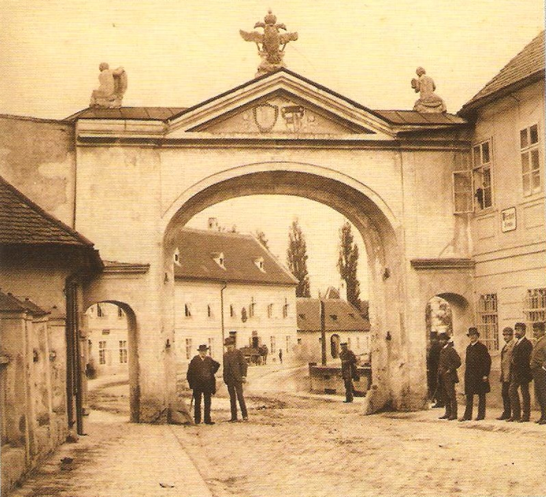 Wienertor, St. Pölten, before 1887